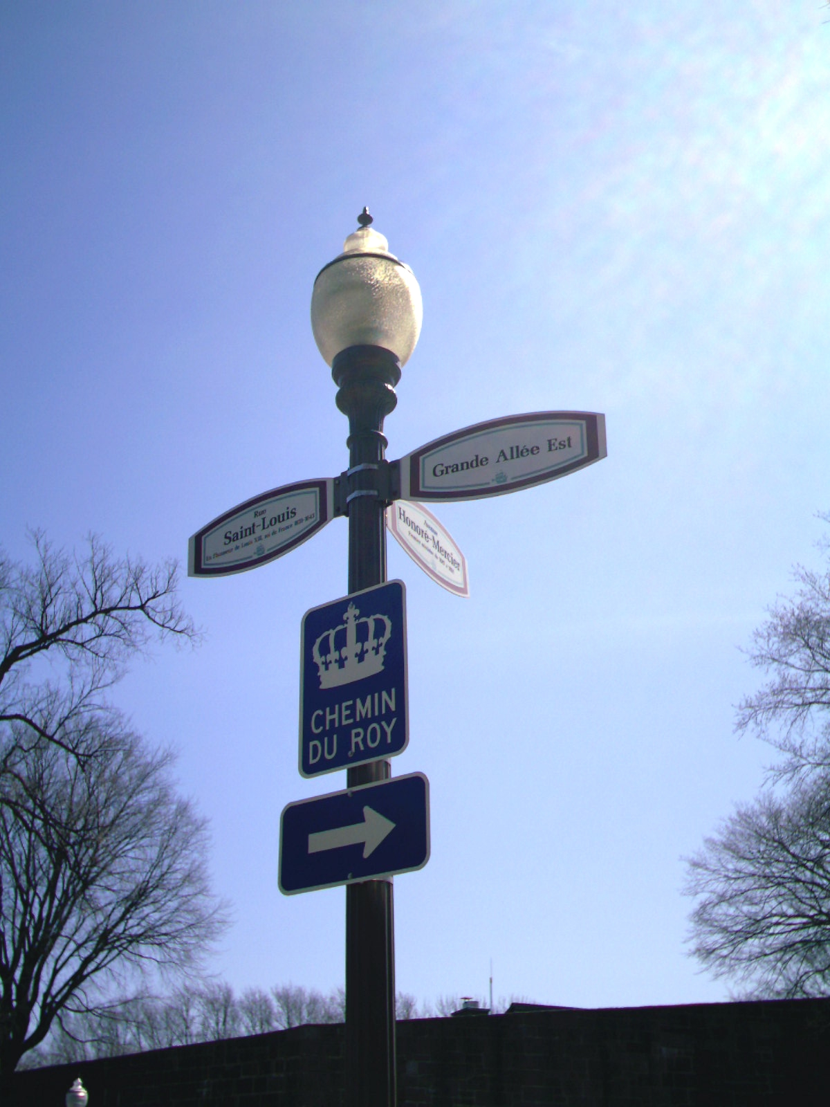 Sign marker for the Chemin du Roy in Quebec City, its eastern terminus. Taken by uploader while on vacation.